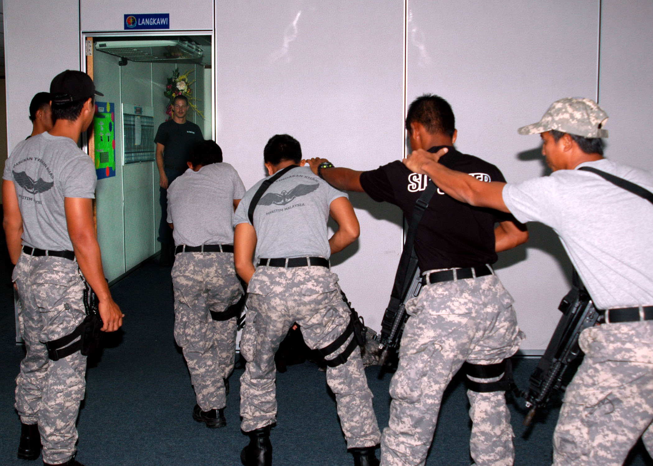 110609-N-0S584-145 KUANTAN, Malaysia (Jun 8, 2011) Malaysian Maritime Enforcement Agency personnel prepare to enter a room as Maritime Law Enforcement Specialist 2nd Class Wesley Bradley observes during a tactical procedures exchange during Cooperation Afloat Readiness and Training (CARAT) Malaysia 2011. CARAT is a series of bilateral exercises held annually in Southeast Asia to strengthen relationships and enhance force readiness. (U.S. Navy photo by Mass Communication Specialist 2nd Class Jimmie Crockett/Released)